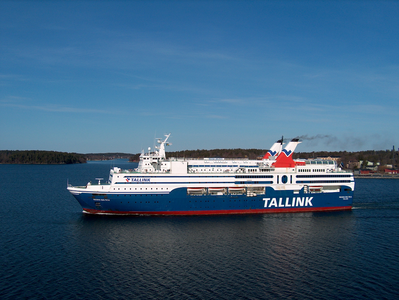 MF Regina Baltica going to Stockholm on 23 April 2006. IMO Number: 7827225 MMSI Number: 275054000 Callsign: YLBP Length: 145.19 m Beam: 25.51 m